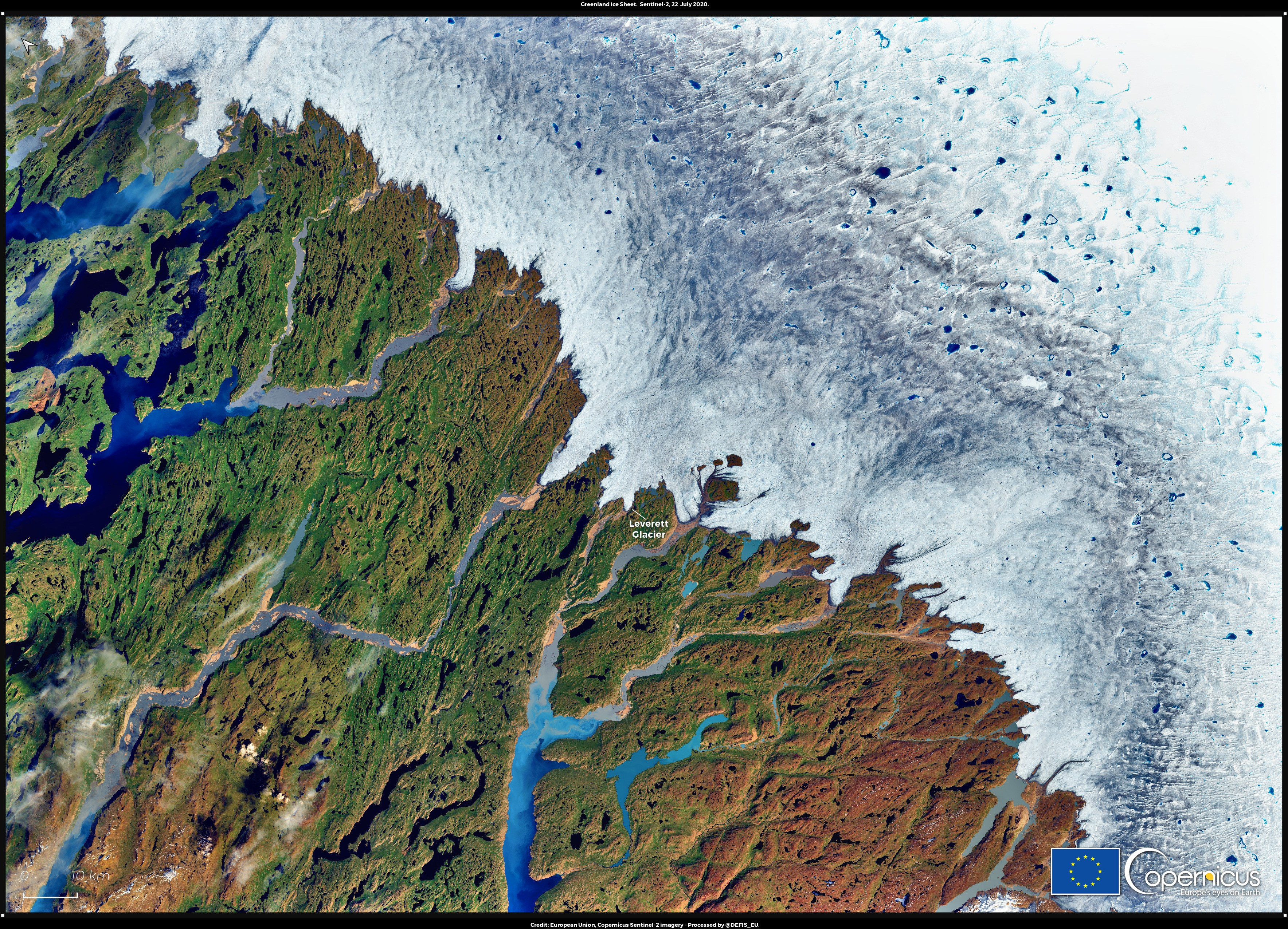 Check out my article on Greenland at